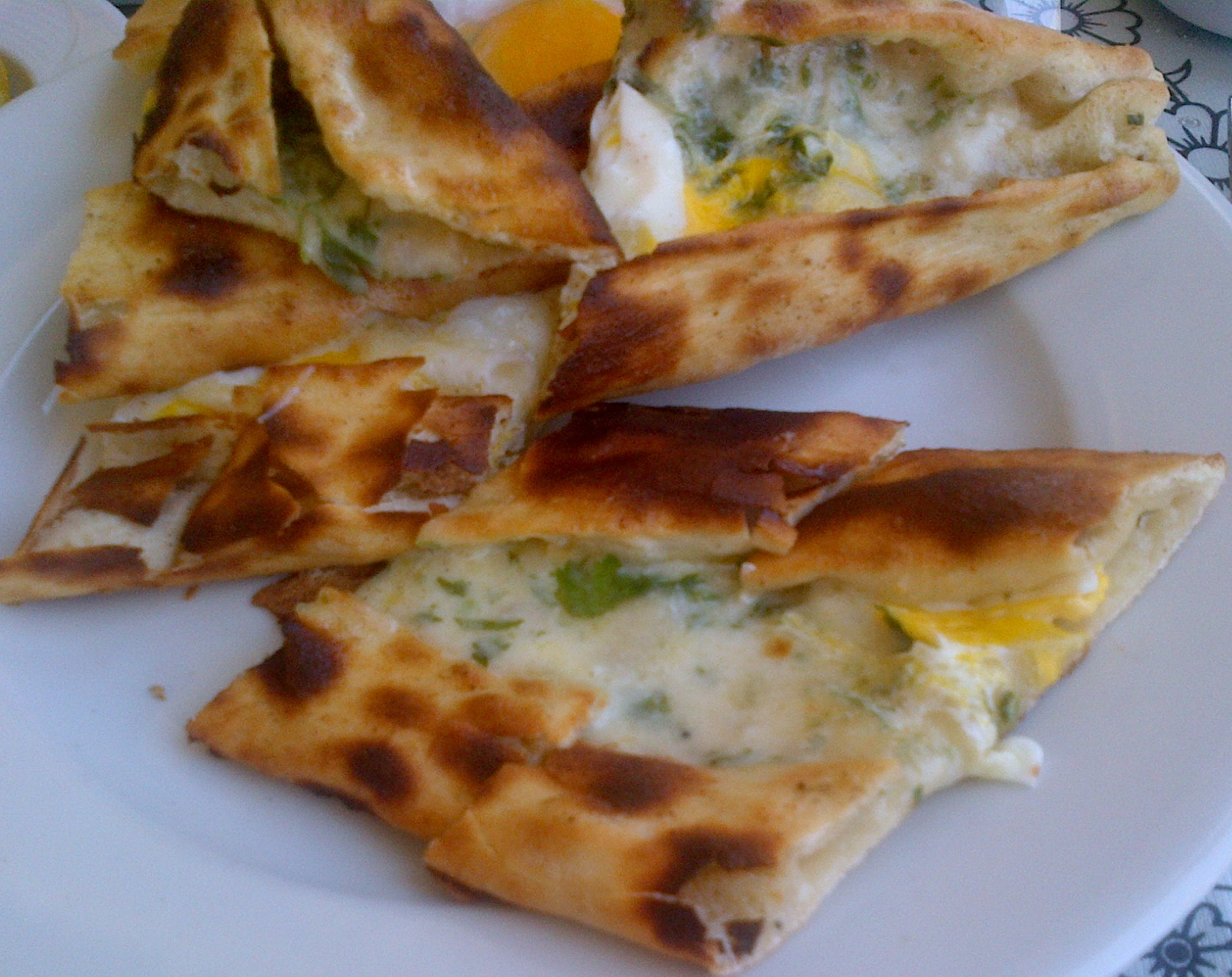 Turkish pide, with "çökelek" (a kind of Turkish cheese) and an optional egg on top.